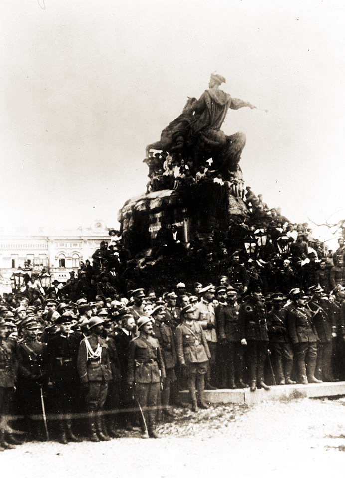 Symon Petlura salutes parade of Ukrainian and Polish Army. Kyiv, 23th of May 1920.